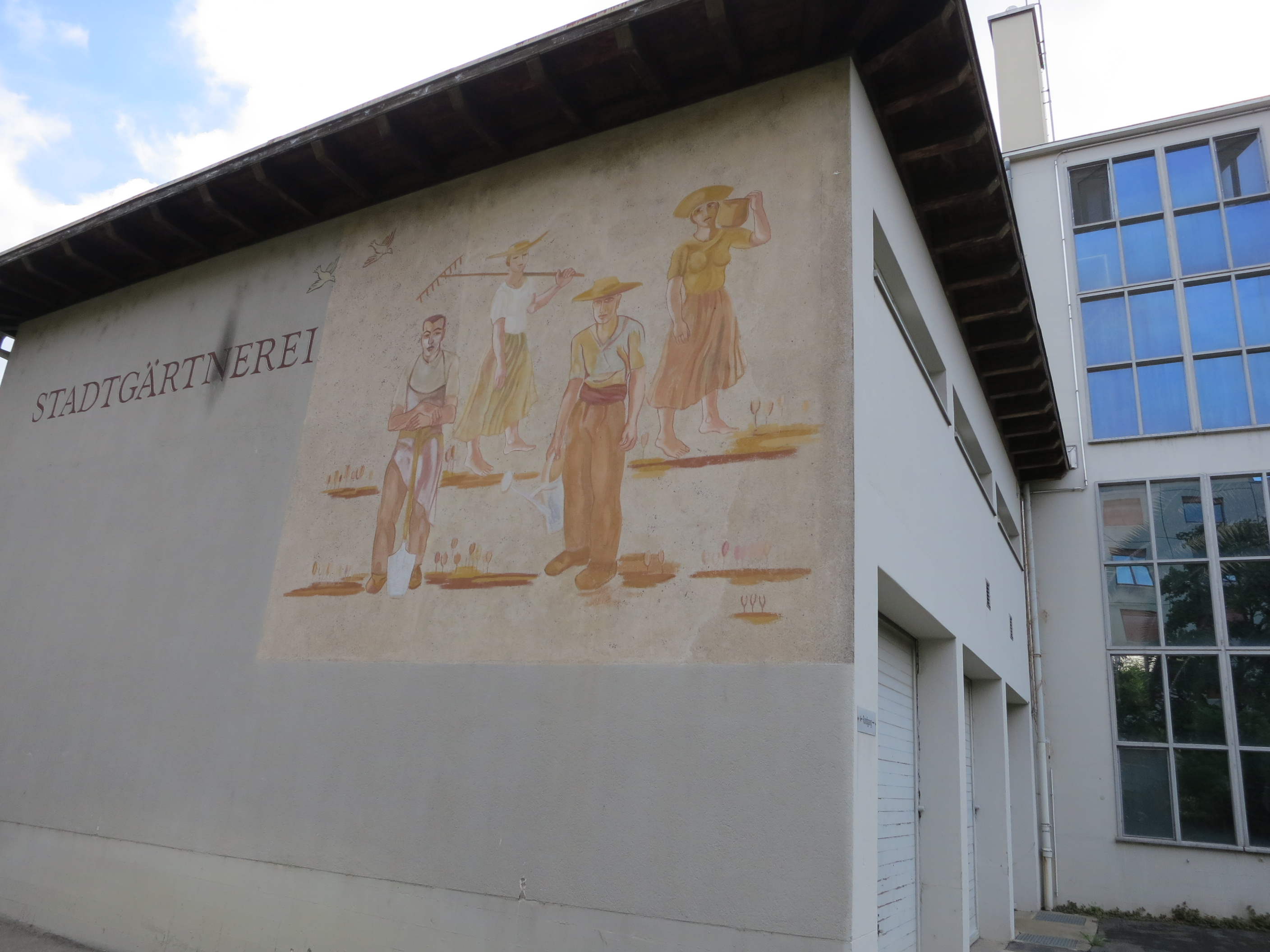 Stadtgärtnerei, Zürich-Albisrieden, Schweiz